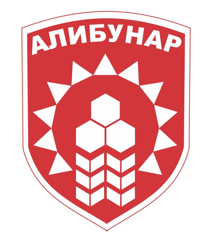 Coat of Arms of Alibunar municipality.